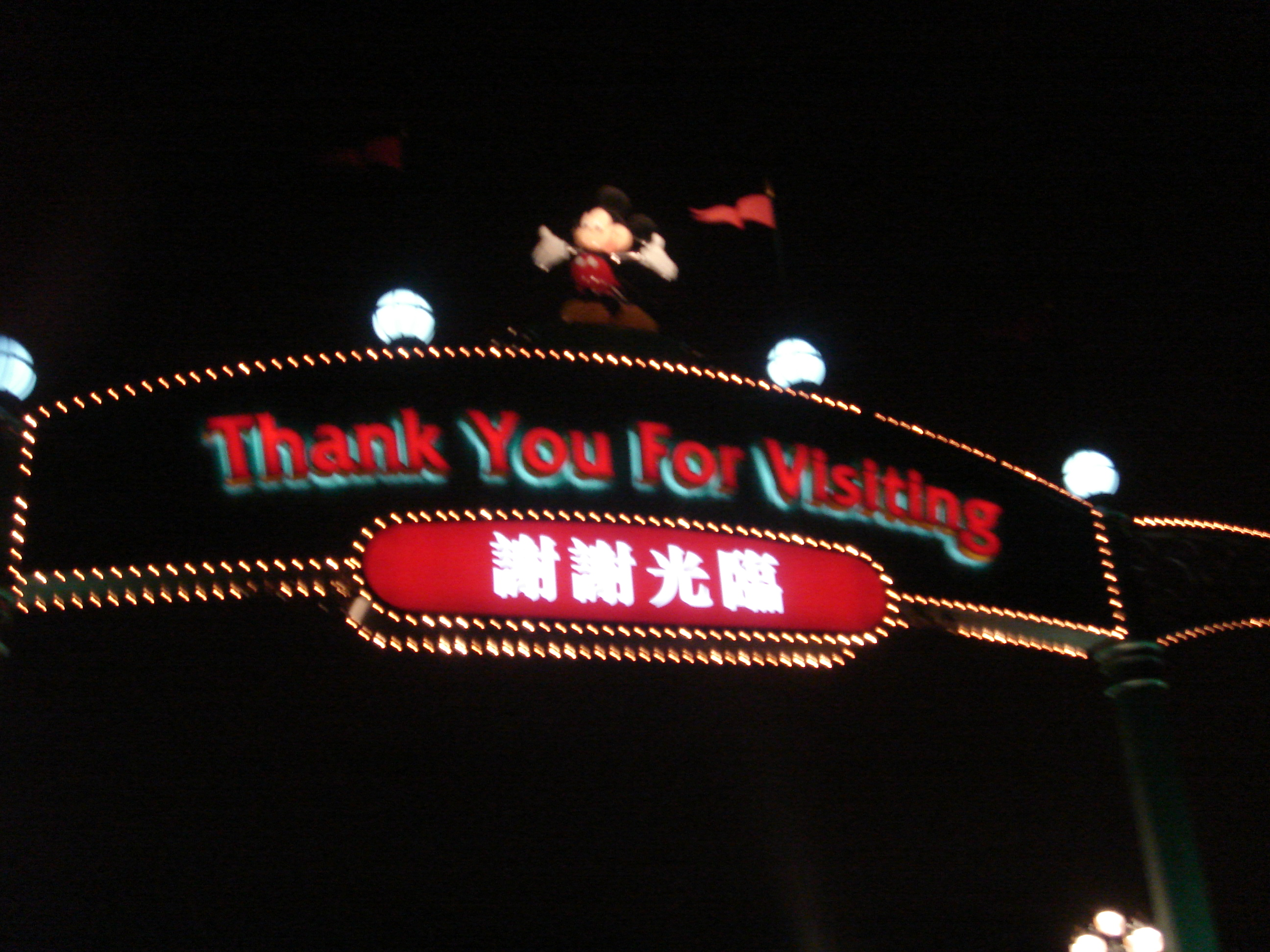 The "Thank you for visiting" sign in Disneyland Hong Kong